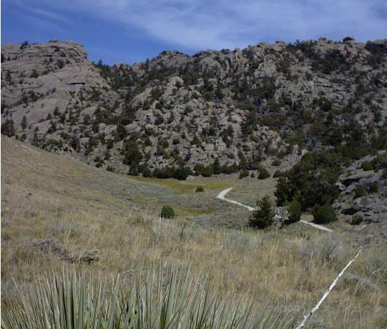 Photograph of Martin's Cove, taken by self August 12, 2004